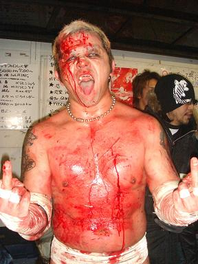 Jun Kasai, soon after the match titled "Madness of Massacre" against Jaki the Black Angel Numazawa.